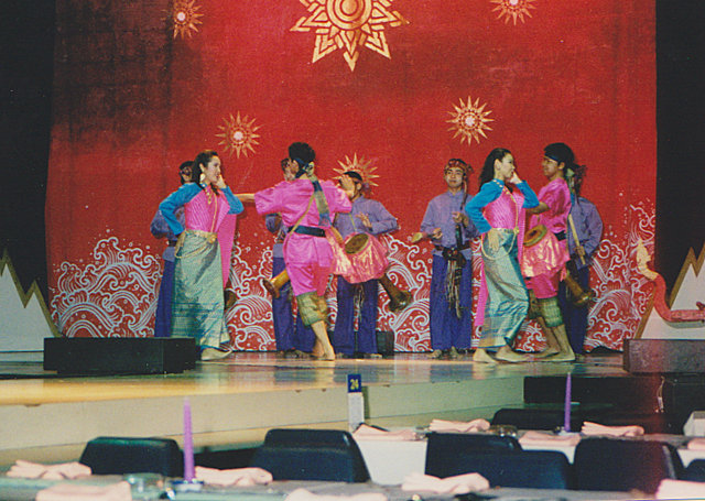 Dancegroup of Thailand